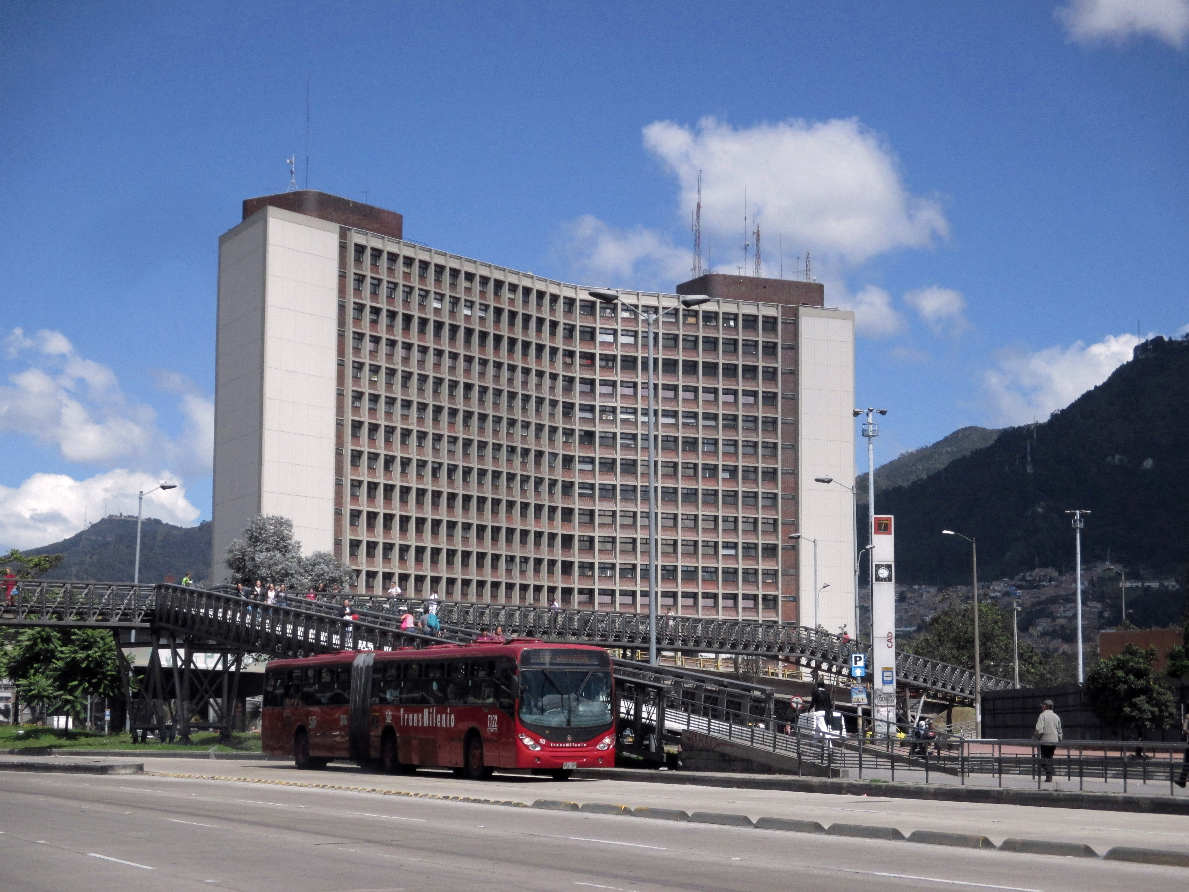 Bogotá